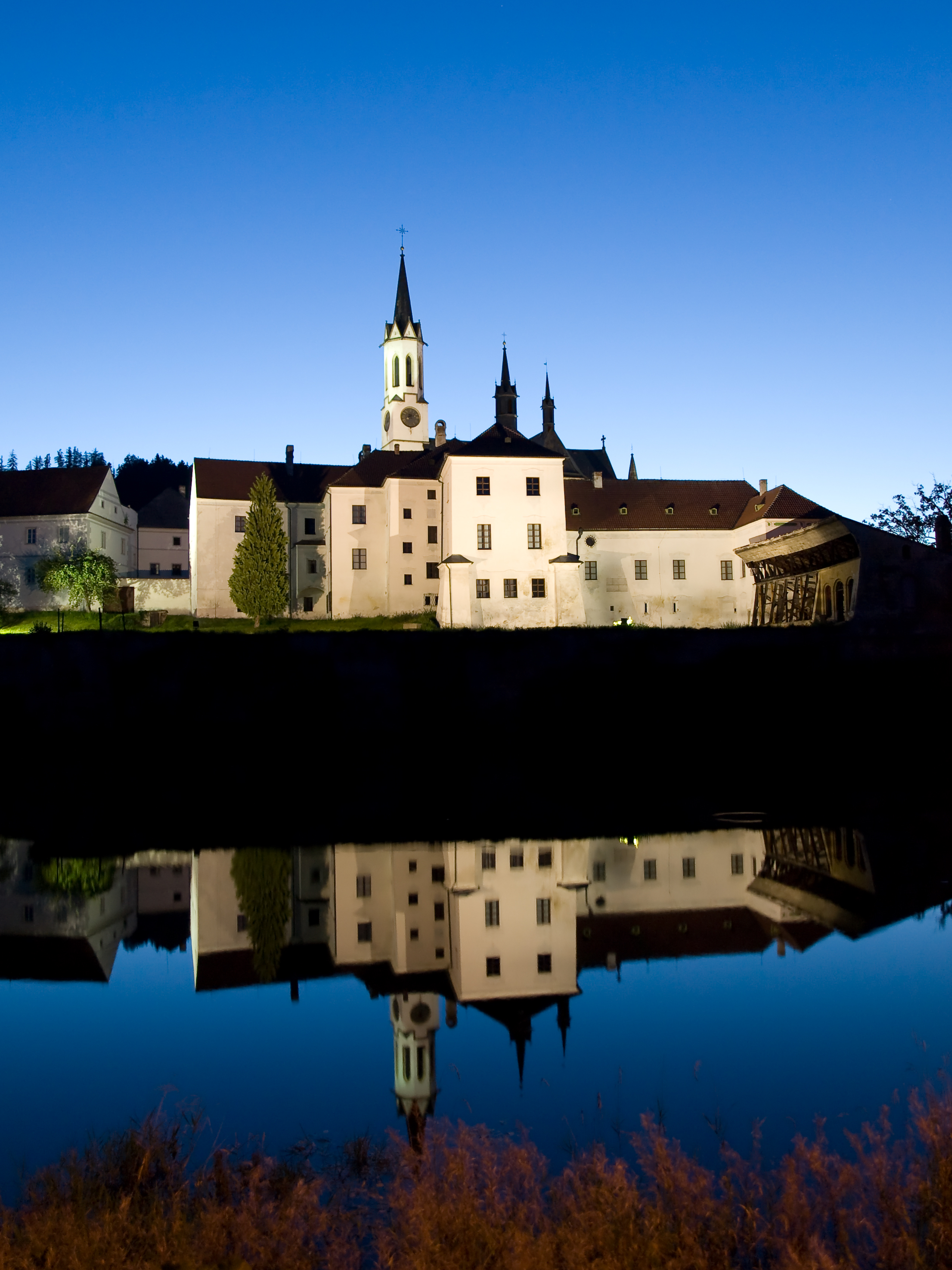 Cloister, Vyšší Brod, South Bohemian Region, Czech Republic